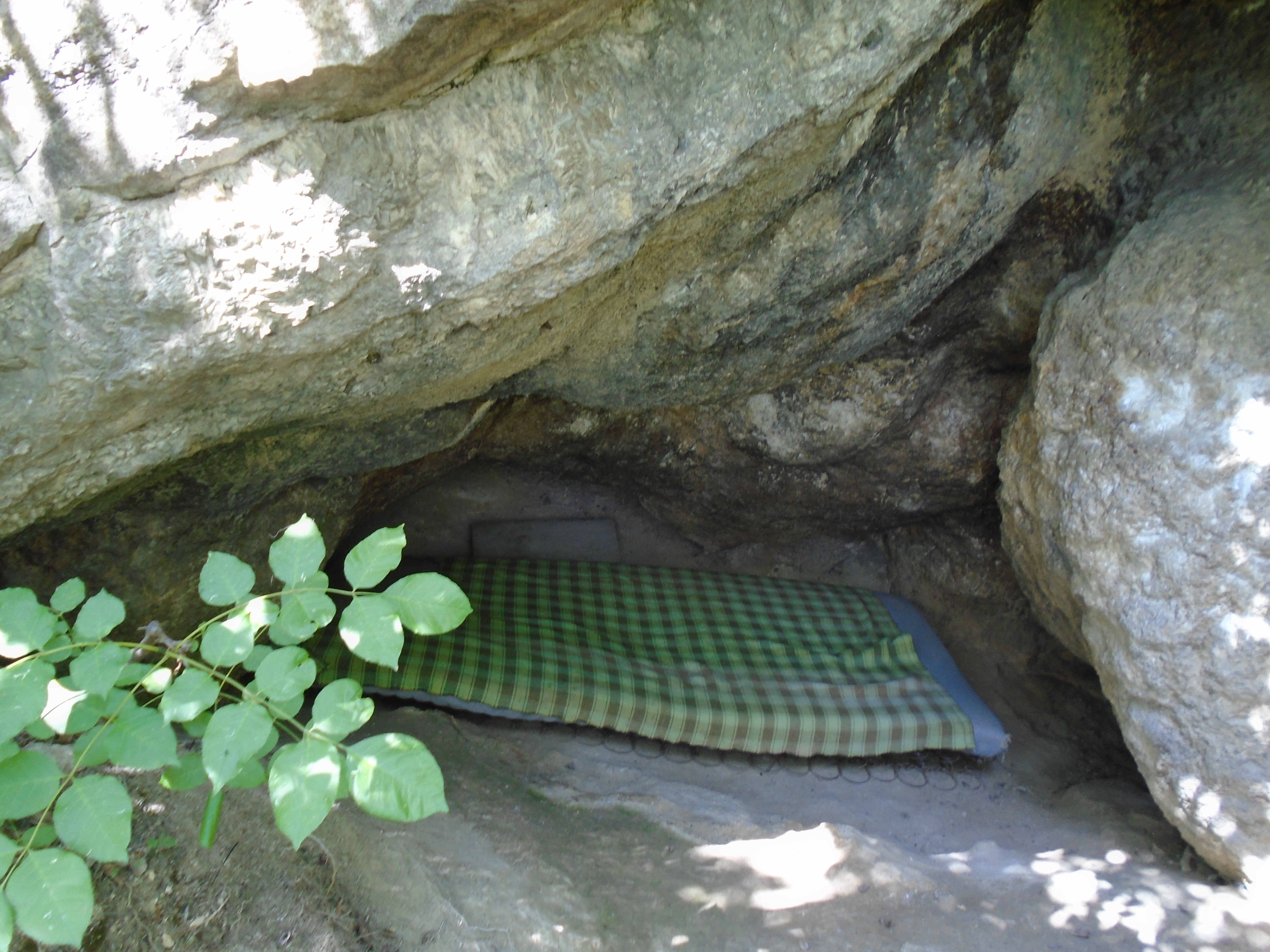 Main entrance of Barit Cave.